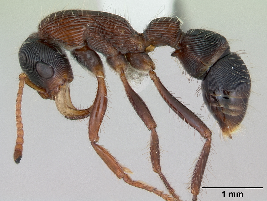 Profile view of ant Gnamptogenys sulcata specimen casent0173387.